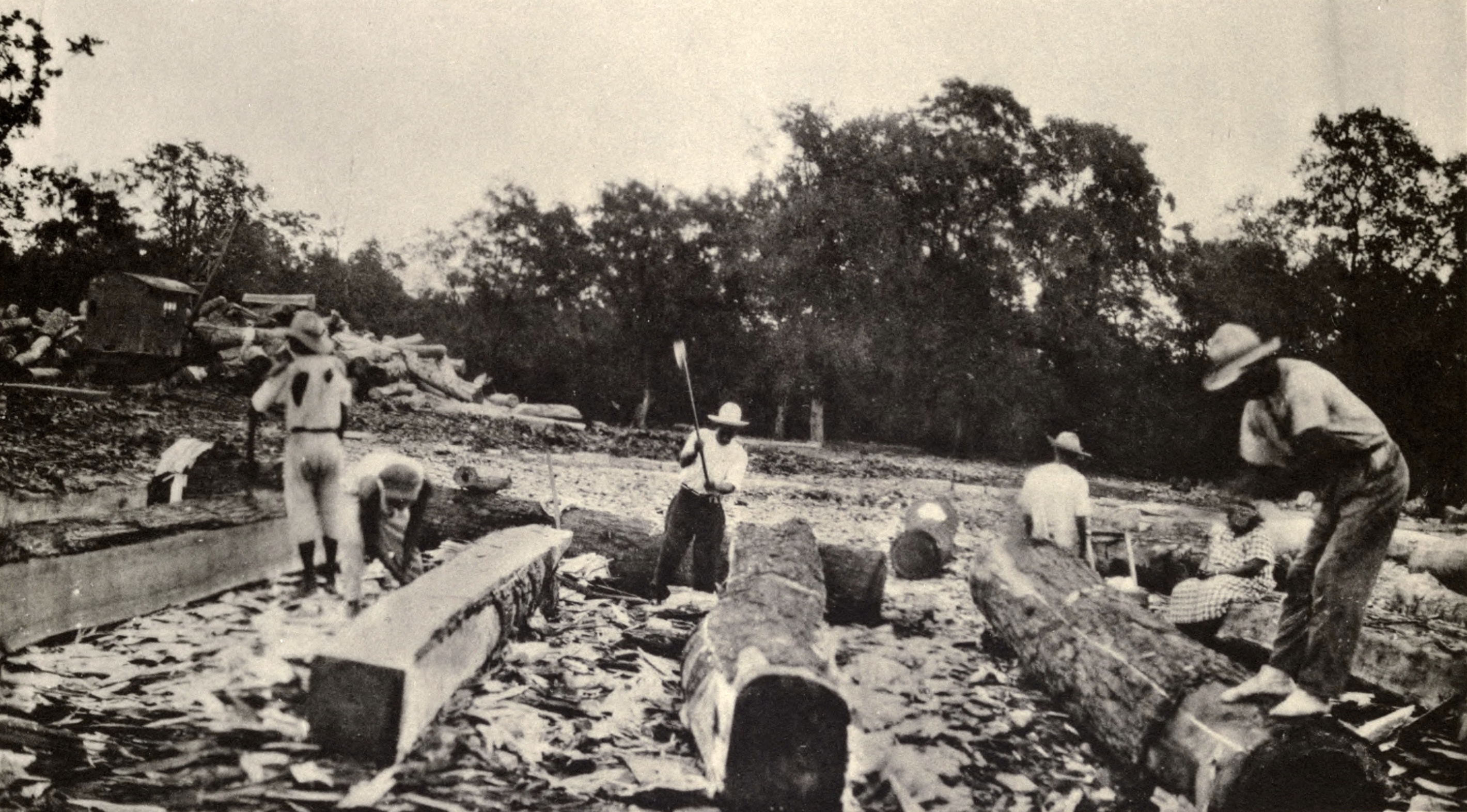 Squaring mahogany logs for export, Belize around 1936